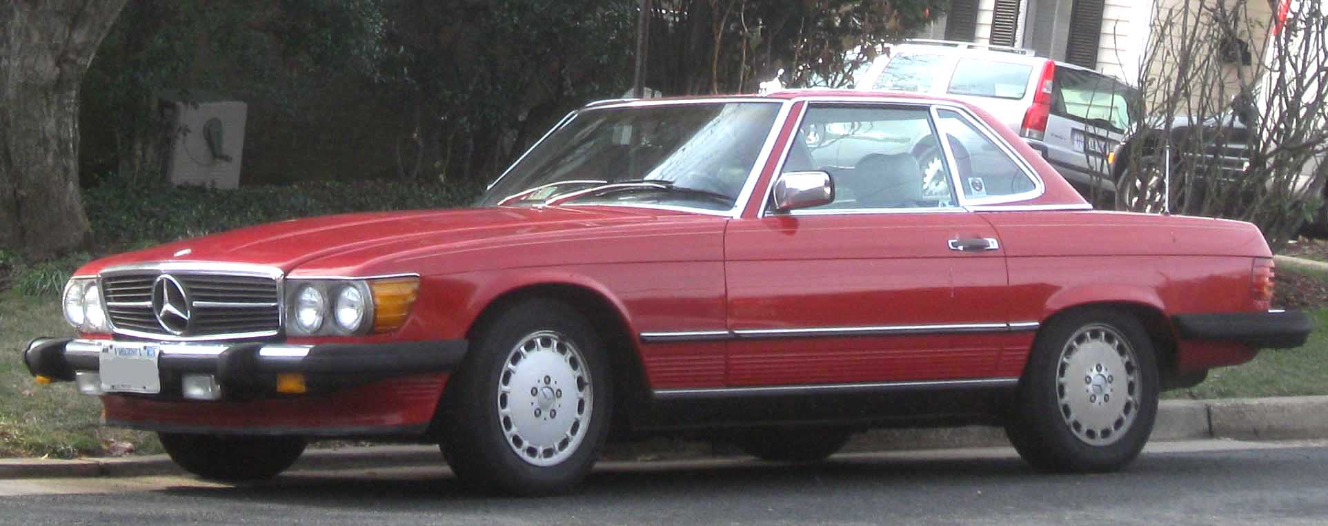 Mercedes-Benz SL photographed in Alexandria, Virginia, USA.